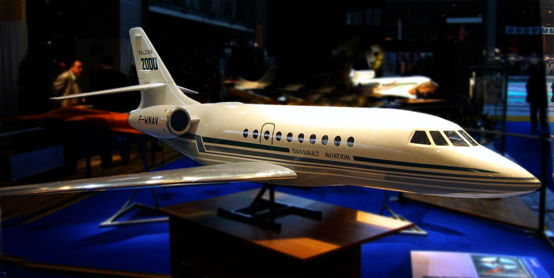 A big official model of Dassault Falcon 2000 Personal picture